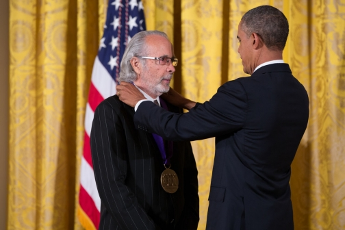 Herb Alpert receiving the Medal of Honor for the Arts from President Obama July 10, 2013 at the White House.